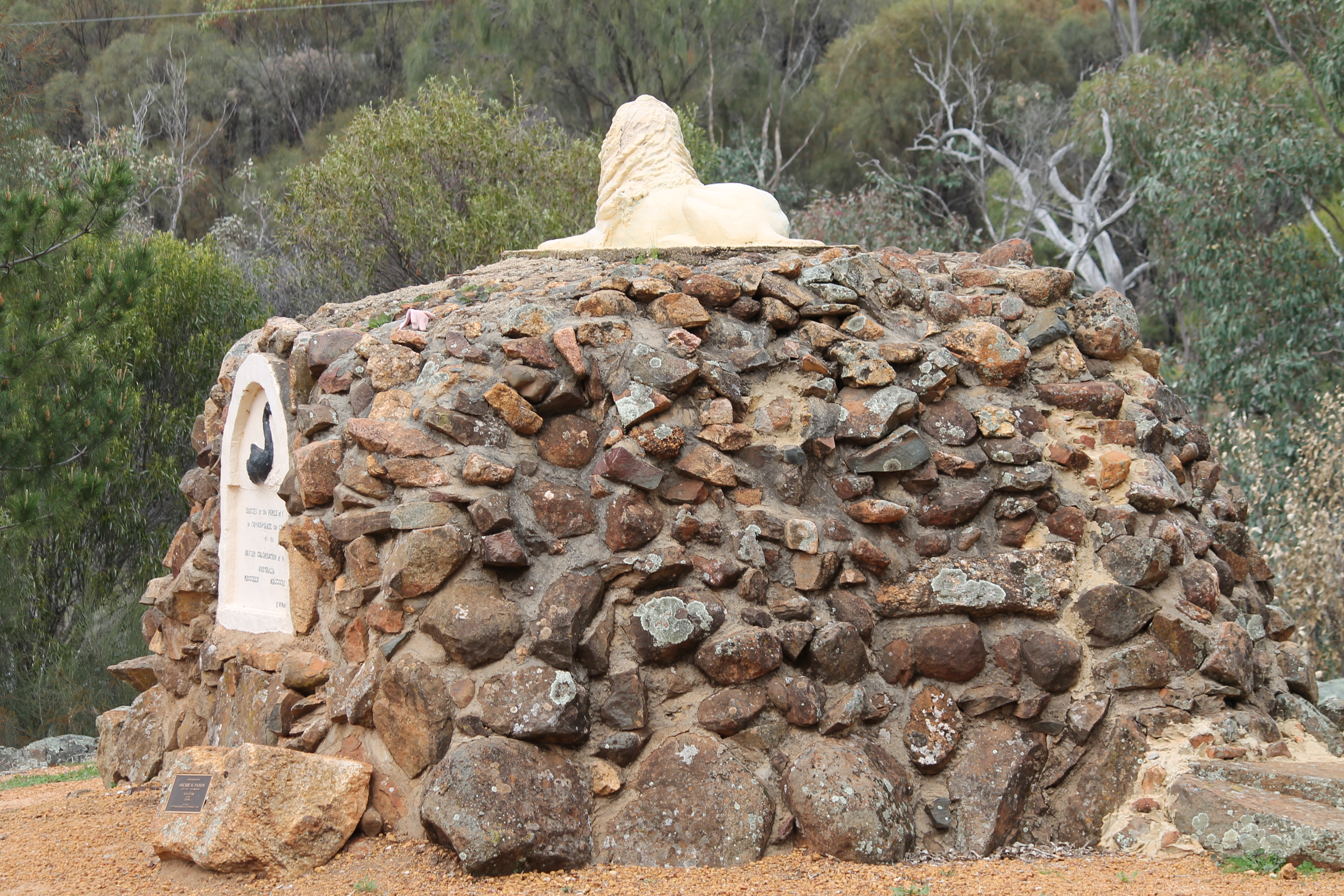 The Centenary of Western Australia Lion Sculpture from the north, Clackline Brook lies to the south on the other side